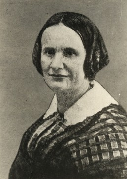 A photo of Betsy Mix Cowles an abolitionist from Bristol, Connecticut